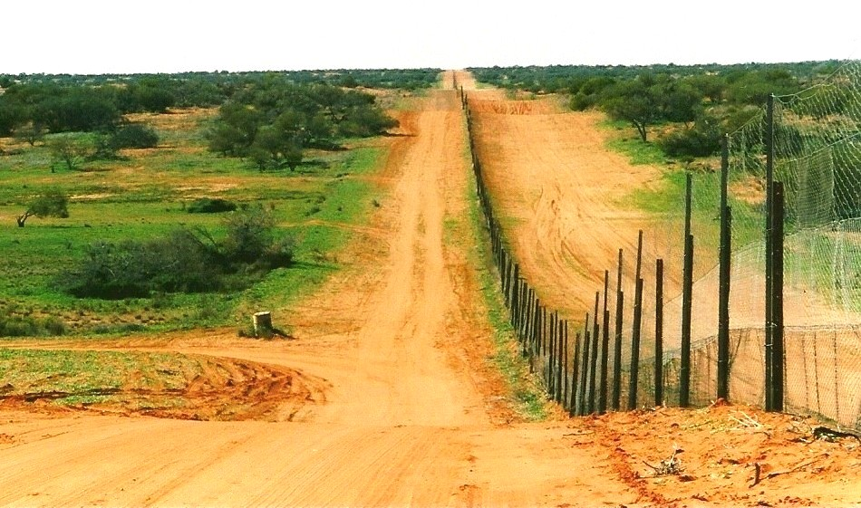 Sturt_National_Park_-_Dingo_Fence_-_CameronsCorner